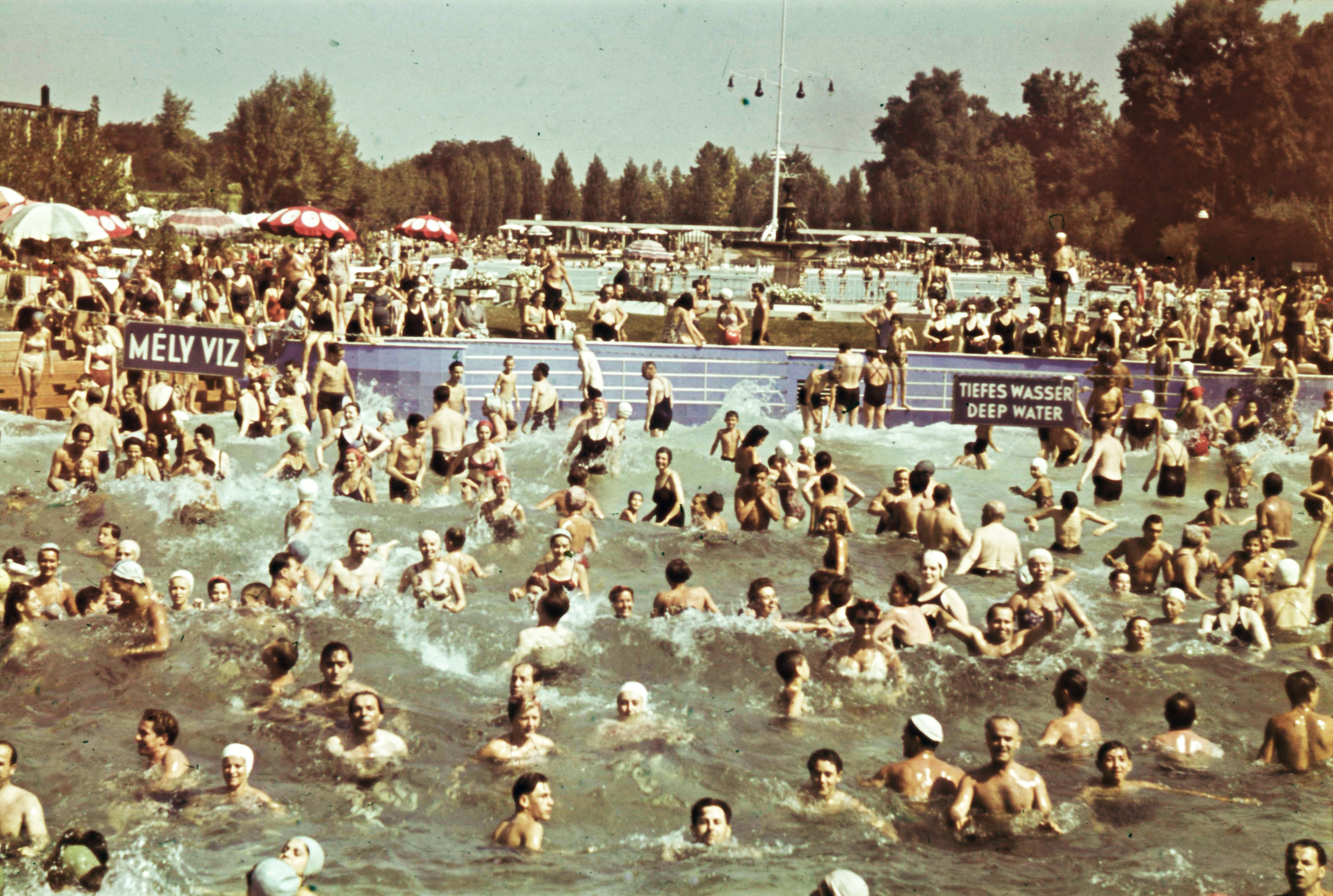 Hungary 1939 This Agfacolor photo (invention from 1936) was not colorized. Life before the Second World War.